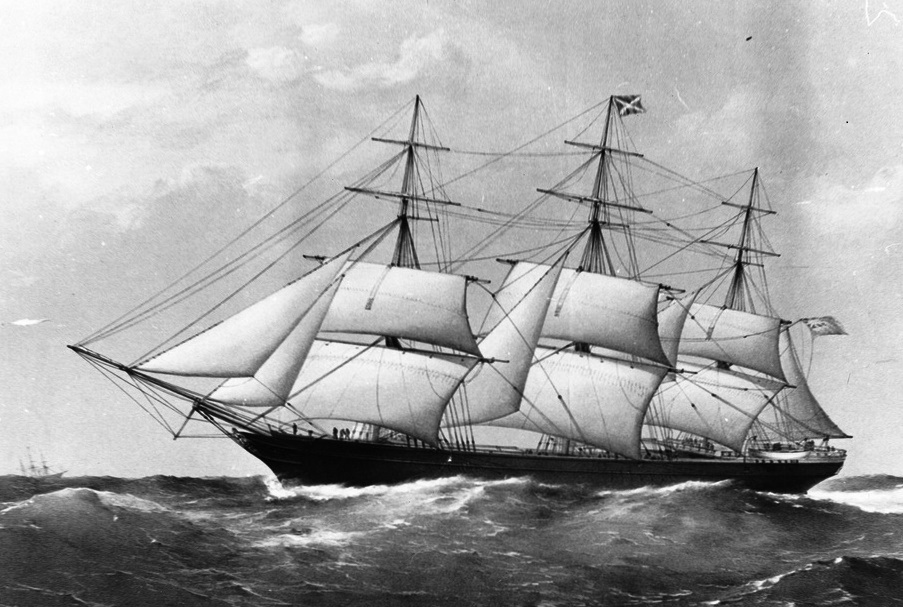 Clipper Coonatto c. 1865